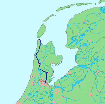 Location of a waterway (river/canal) in the Netherlends